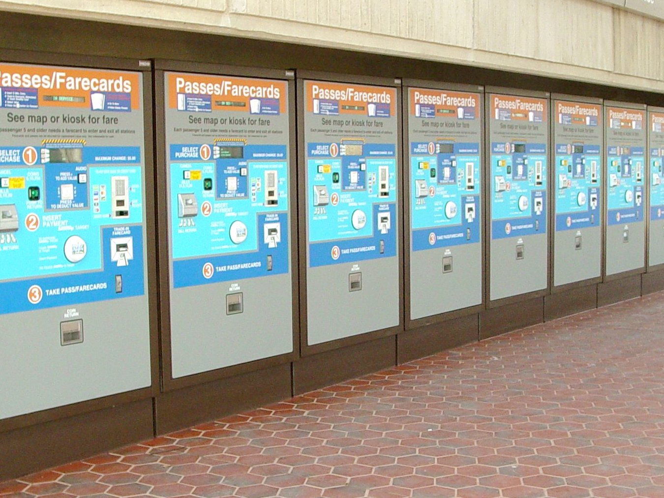 Vending machines for Washington Metro farecards and passes (paper cards) at the Morgan Boulevard station. The machines also allow customers to add value to SmarTrip cards (reloadable "smart cards").